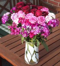 Flower bouquets